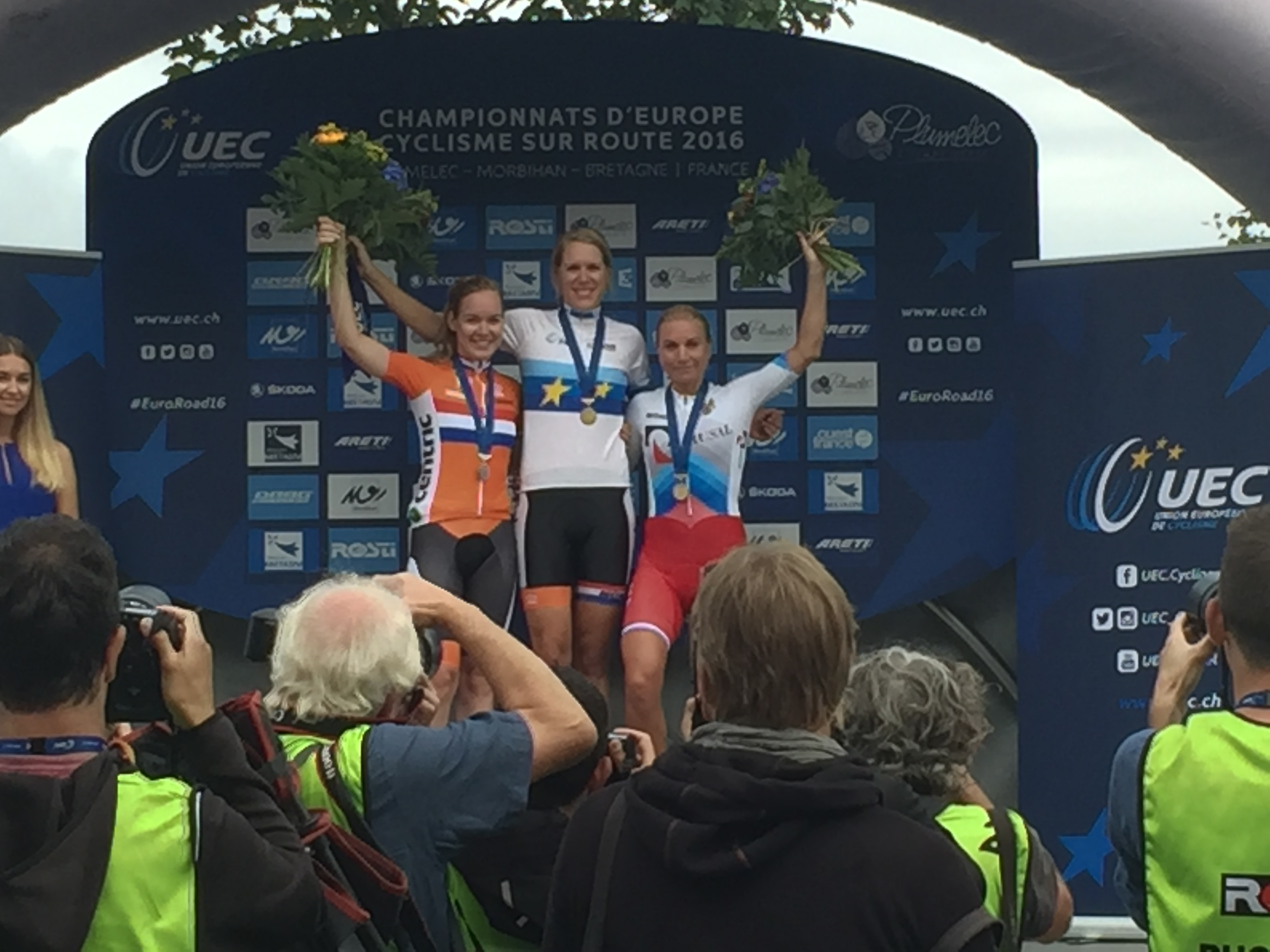 2016 European Road Championships